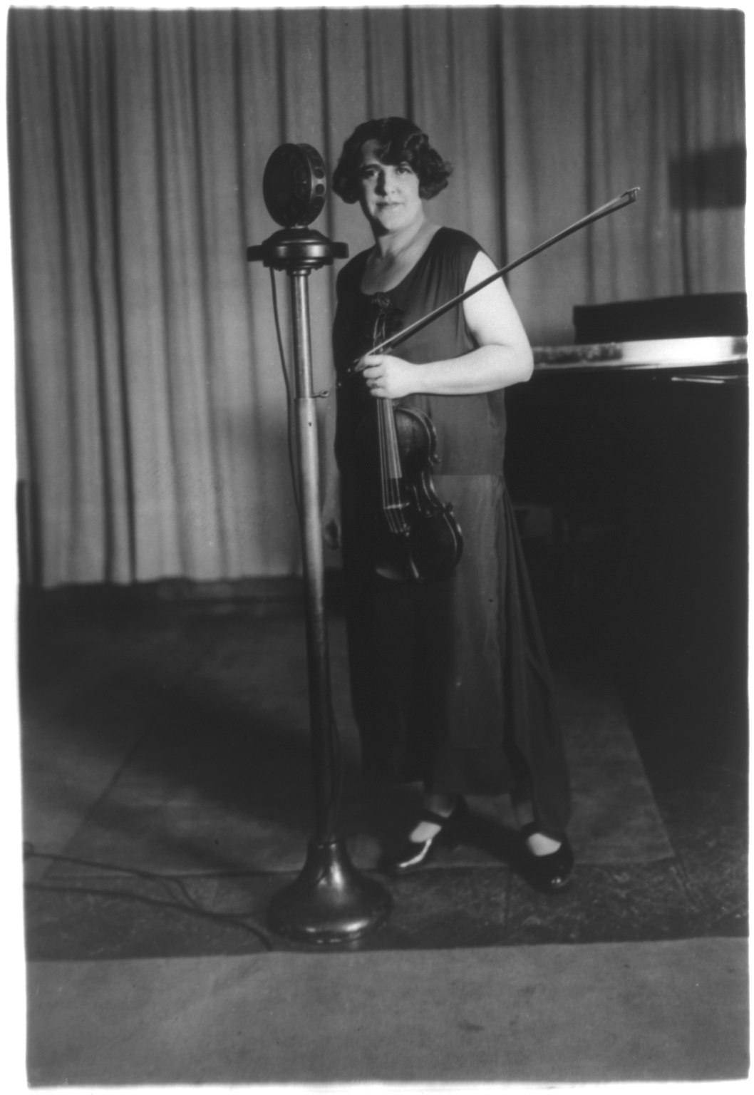 Title: Renee Chemet Abstract/medium: 1 photographic print.